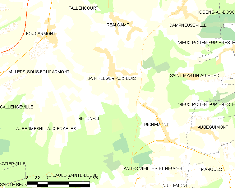 Map of French municipality Saint-Léger-aux-Bois